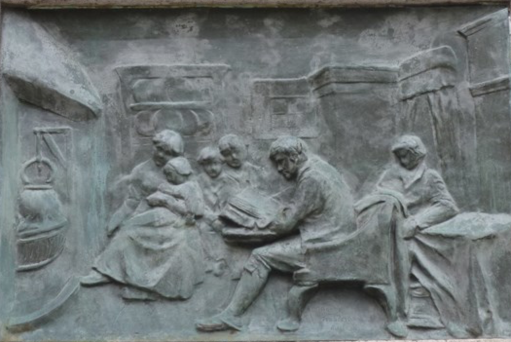 The Cotter's Saturday Night, Robbie Burns Statue, Halifax, Nova Scotia